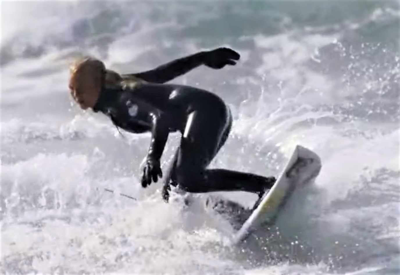 Mathea Olin is a young Canadian surfer from Tofino, British Columbia. The 16-year-old has her sights set on the Summer Olympic Games in 2020 as Canada debuts their first Olympic surf team. CONNECT WITH CBC SPORTS ON SOCIAL Facebook: Instagram: Twitter: Surfer Mathea Olin | The Bond | May 2019